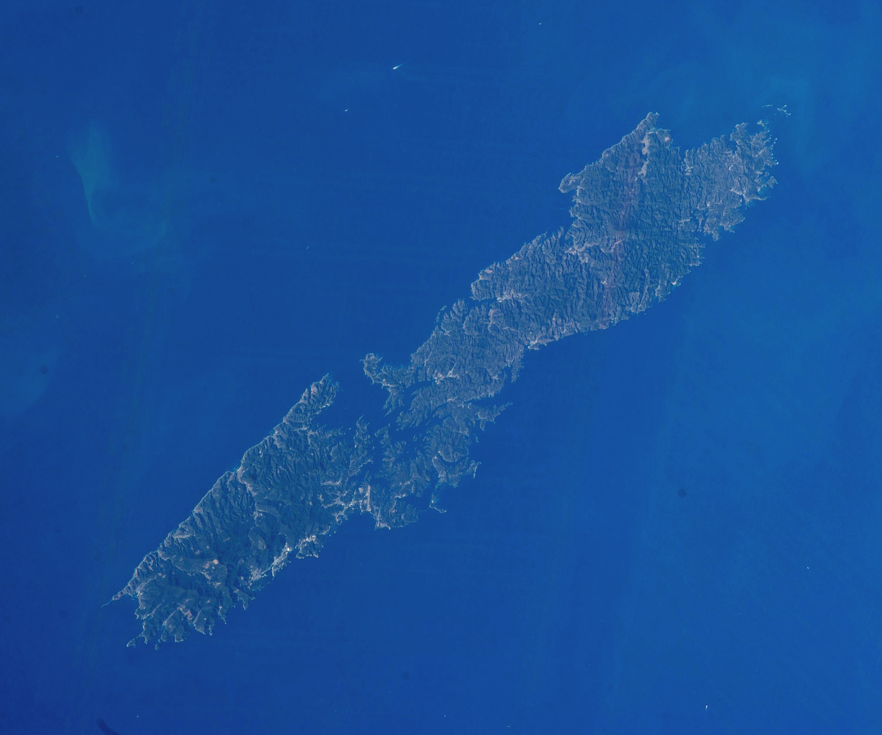 Tsushima Island, located in Nagasaki Prefecture, Japan. Satellite photo by NASA.